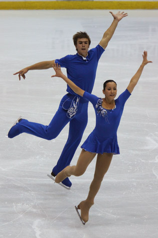 Ksenia Stolbova and Fedor Klimov (RUS) at the 2009-2010 Junior Grand Prix Lake Placid.